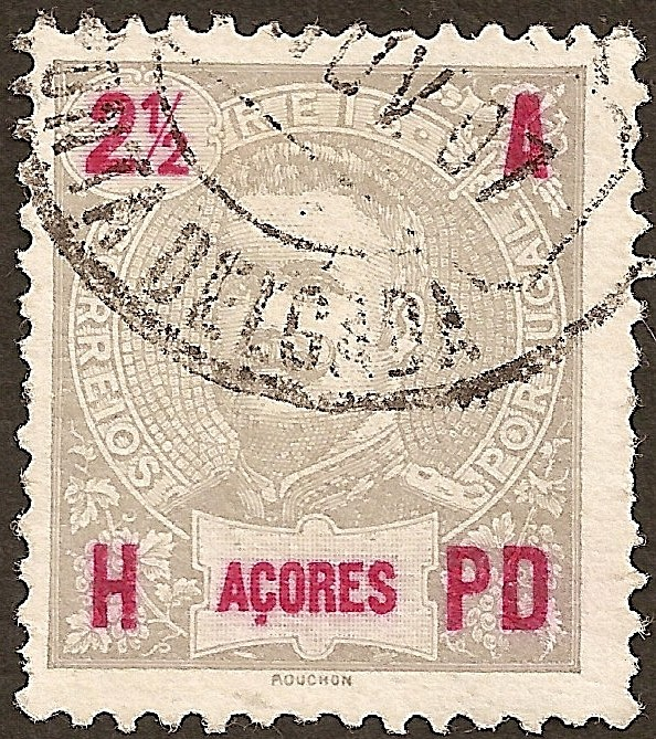 1906 stamp of the Azores figuring king Carlos I of Portugal. Designed and engraved by Louis-Eugène Mouchon (died 1914).